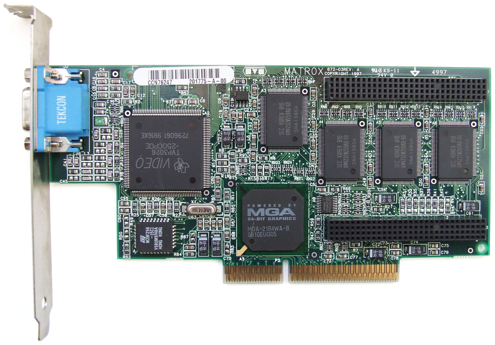 Matrox Millennium II AGP (MIL2A/4/OEM) video card, PCB revision 672-03A. It is based on the MGA-2164WA-B graphics processing unit and equipped with 4 MB of WRAM.